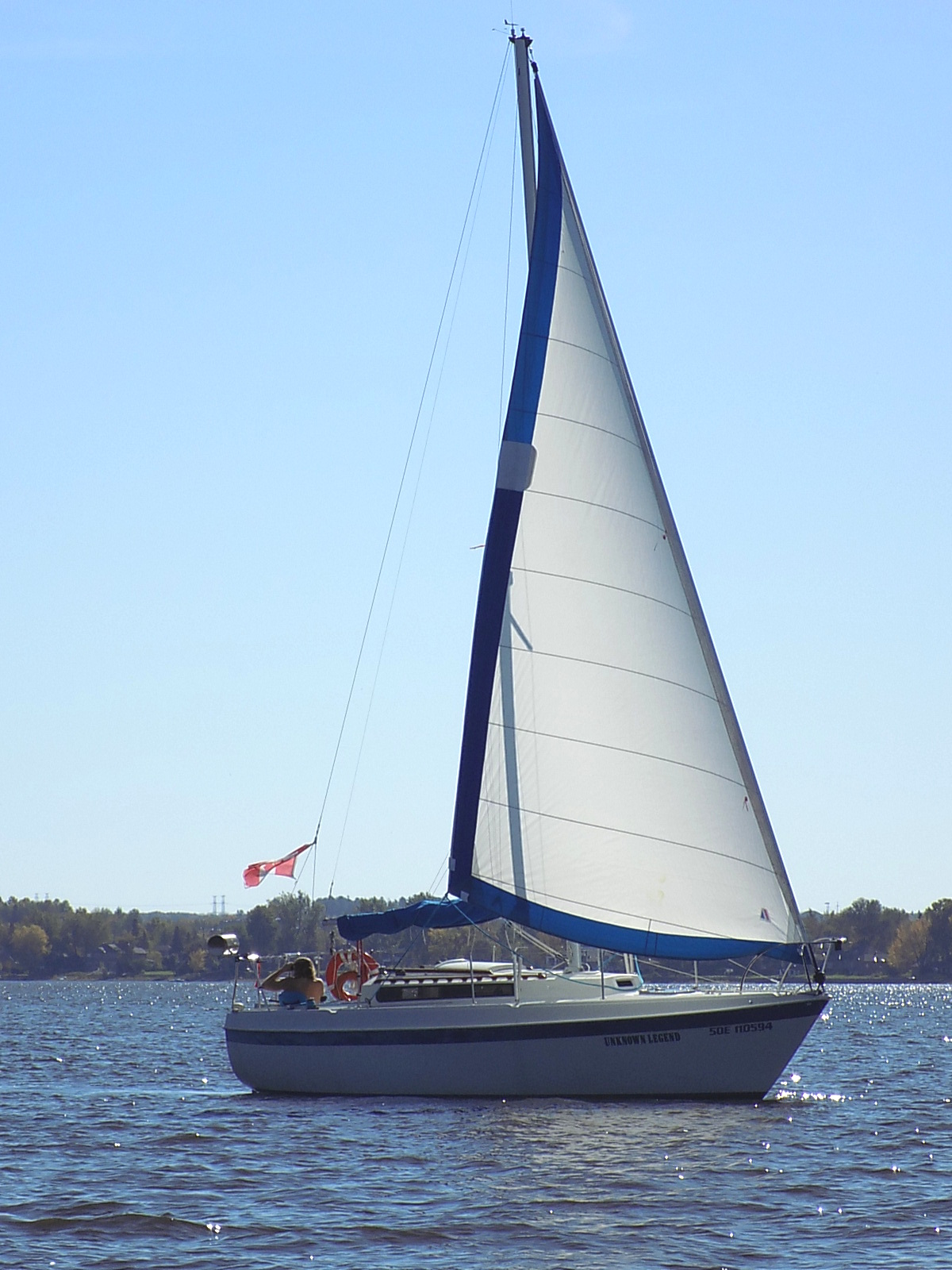 A Tanzer 8.5 sailboat named *Unknown Legend*.